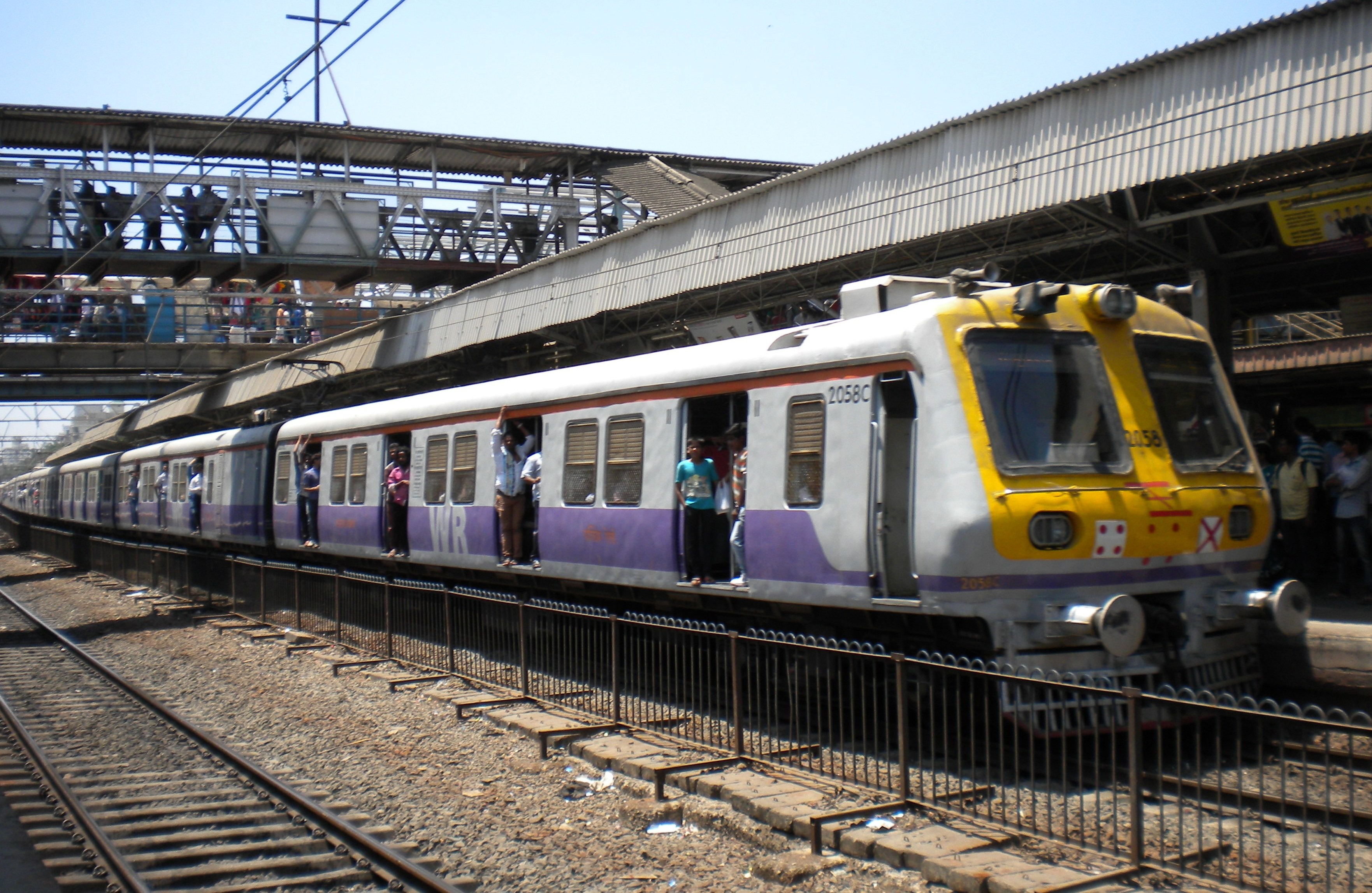 Goregaon station Mumbai - India, April 13 2014.